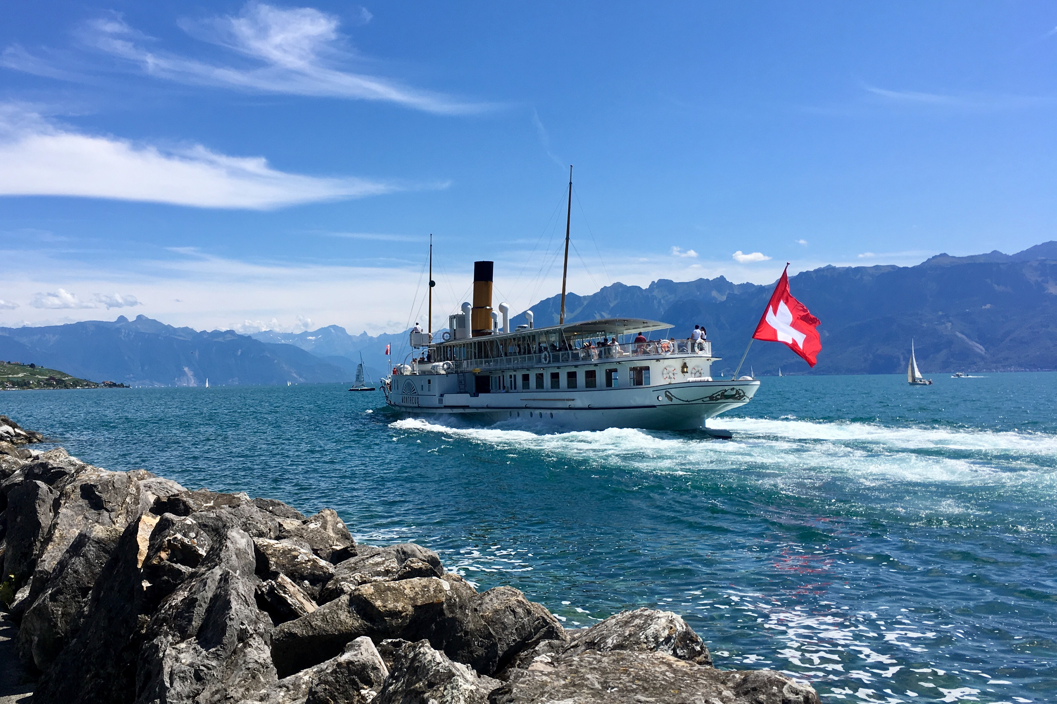 SS Montreux, the oldest paddle steamer operating on Lake Geneva. Taken at Lutry, August 2018.